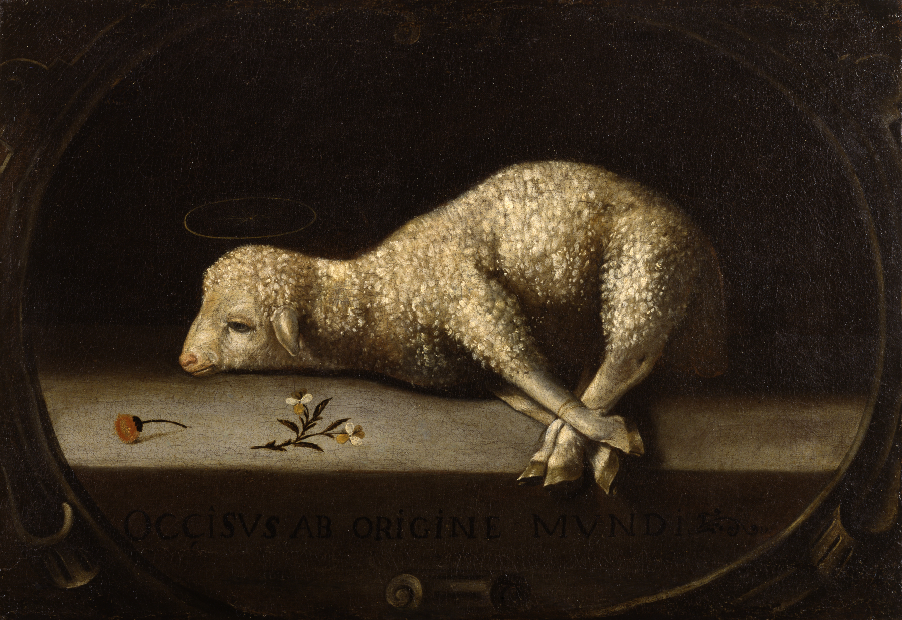 The inscription refers to Christ as the Lamb whose death was foretold. This symbolism of Christ as a sacrificial lamb who brings salvation derives from the feast of Passover, instituted after the Lord saved the Jews in Egypt who brushed the blood of slaughtered lambs over their doors. Although Ayala spent most of her life in Portugal, this work reflects the influence of the art of her native Seville, Spain. She has modeled her composition and her style-with the strong contrasts of light and dark and attention to realistic detail-on paintings of Francisco de Zurbarán (1598-1664), also from that city. Ayala was one of the few women artists active in Spain and Portugal. She was renowned for her ability to paint still lifes and portraits, subjects that were considered appropriate for female painters.